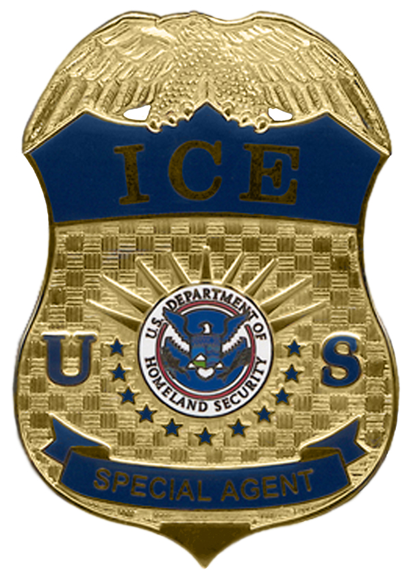 Immigration and Customs Enforcement Special Agent Badge